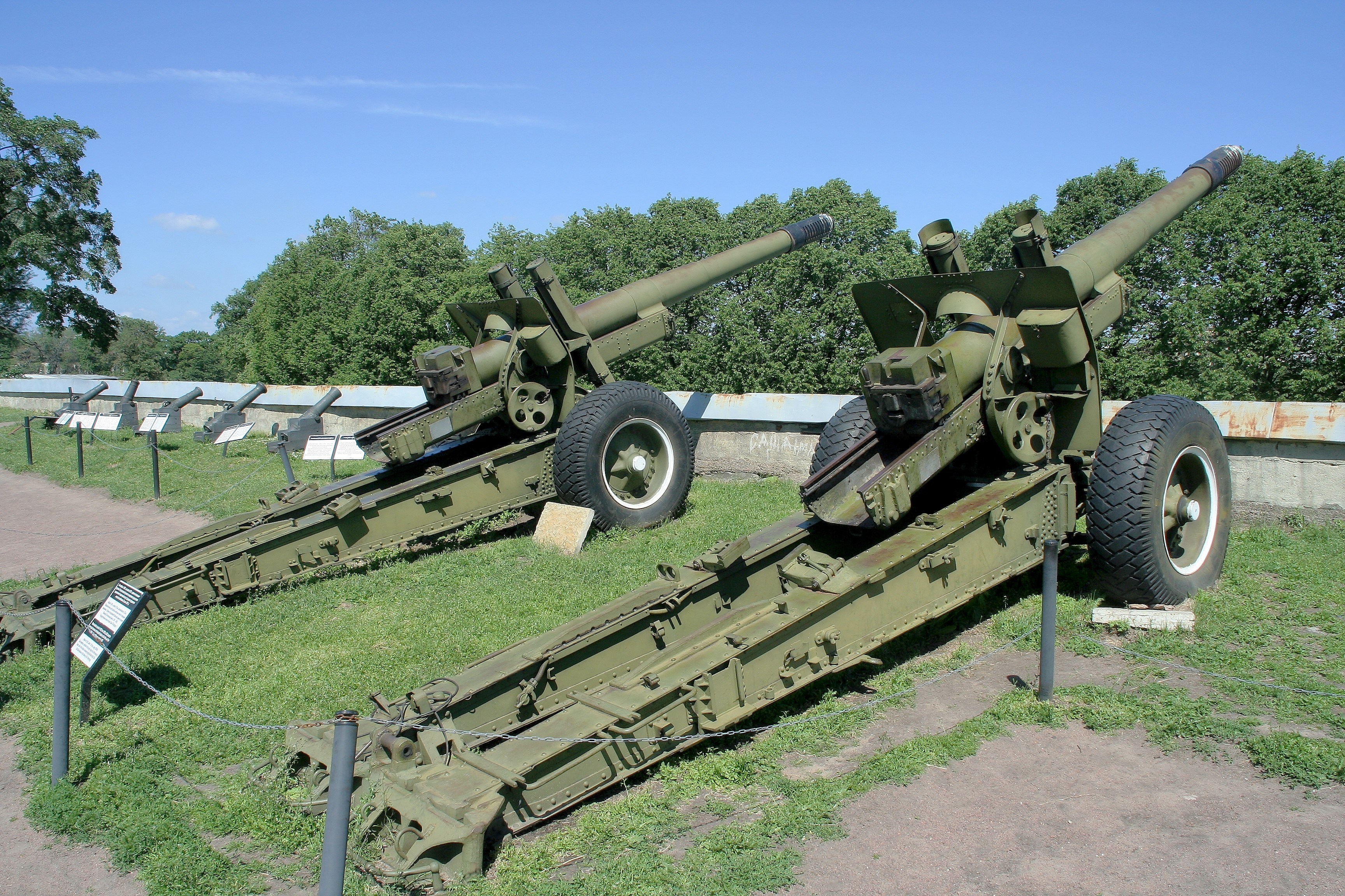 ML-20M gun-howitzer in the fortress of St.Petersburg. These artillery pieces served as noon signal canon until 2002.